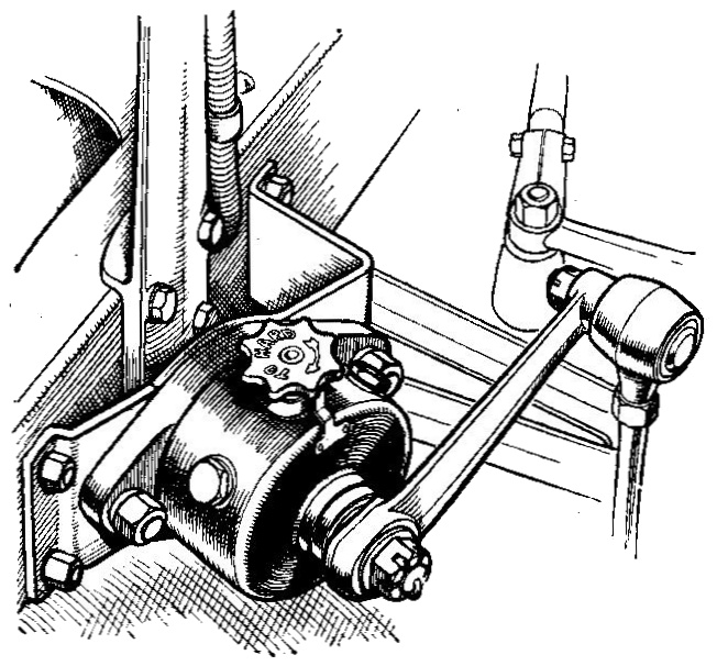 Hydraulic lever-arm shock absorber (Autocar Handbook, 13th ed, 1935).jpg